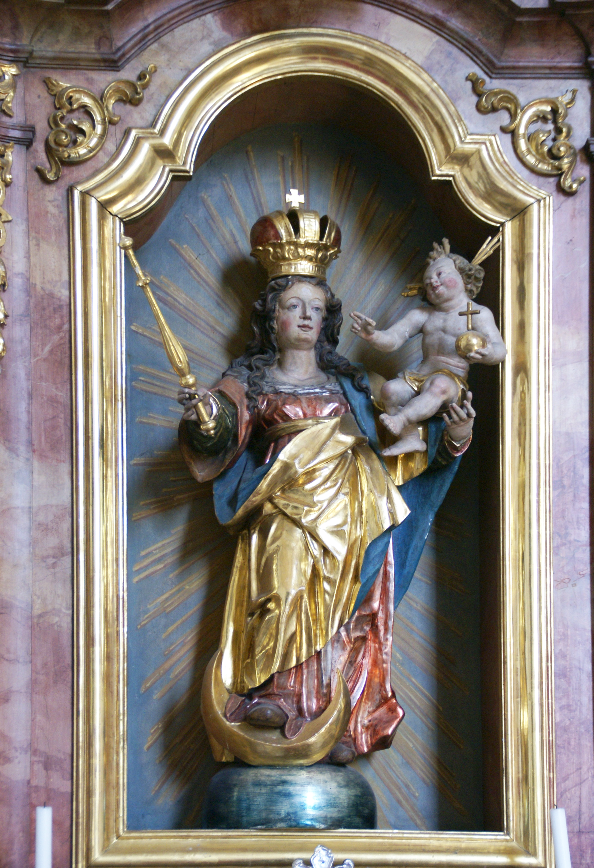 Catholic parish church of St. Johann Baptist in Töging am Inn: statue of Mary and child